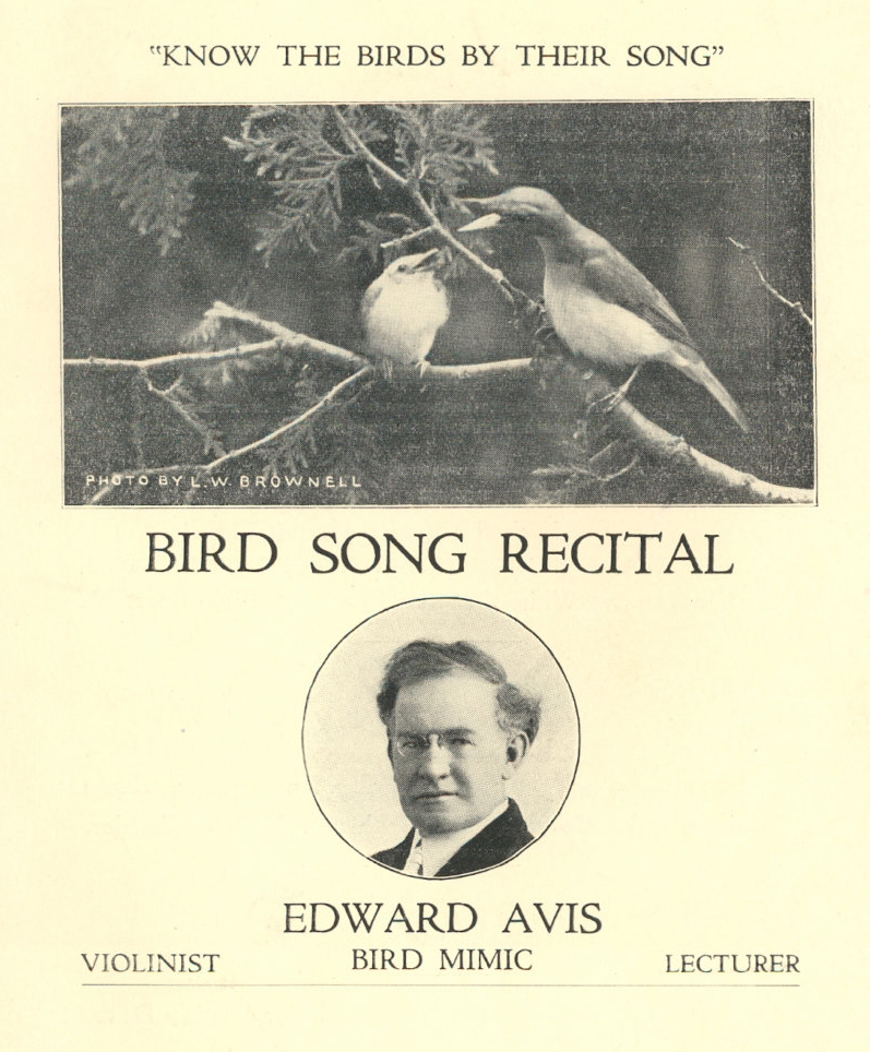 Promotional brochure of "Edward Avis" - Know the Birds by their Song